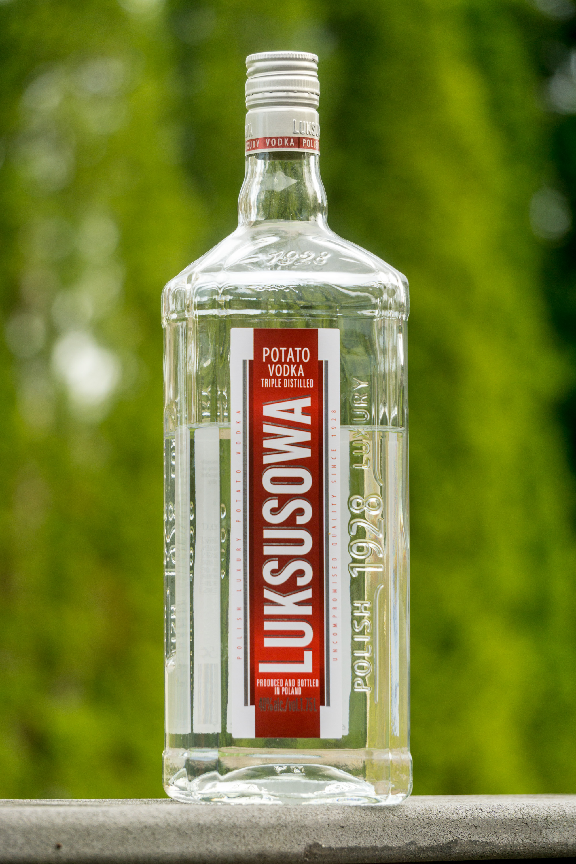 Luksusowa Vodka 1.75L bottle, purchased in the USA